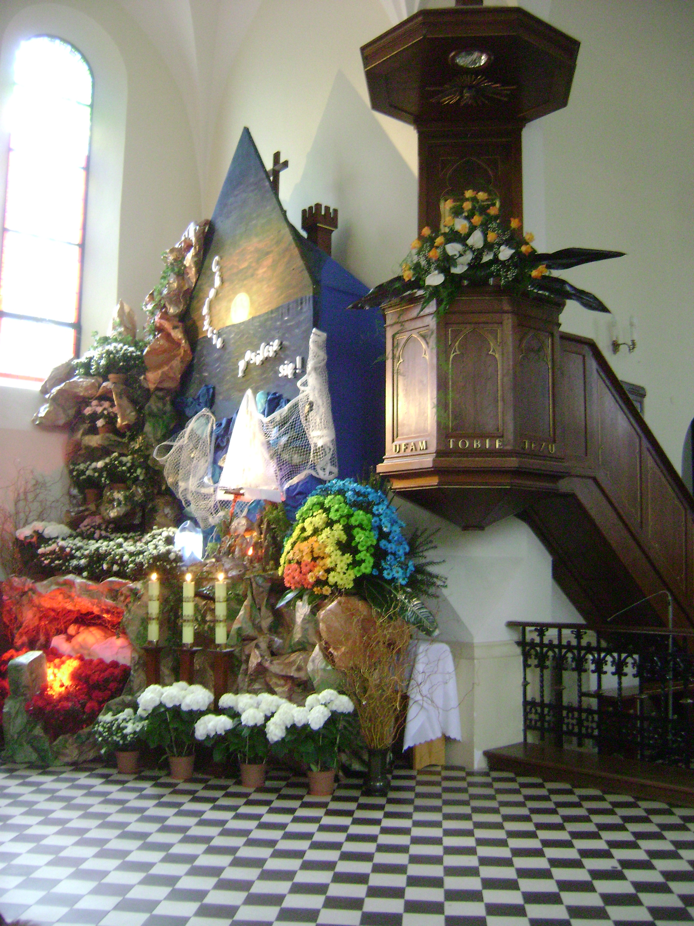 Easter 2010